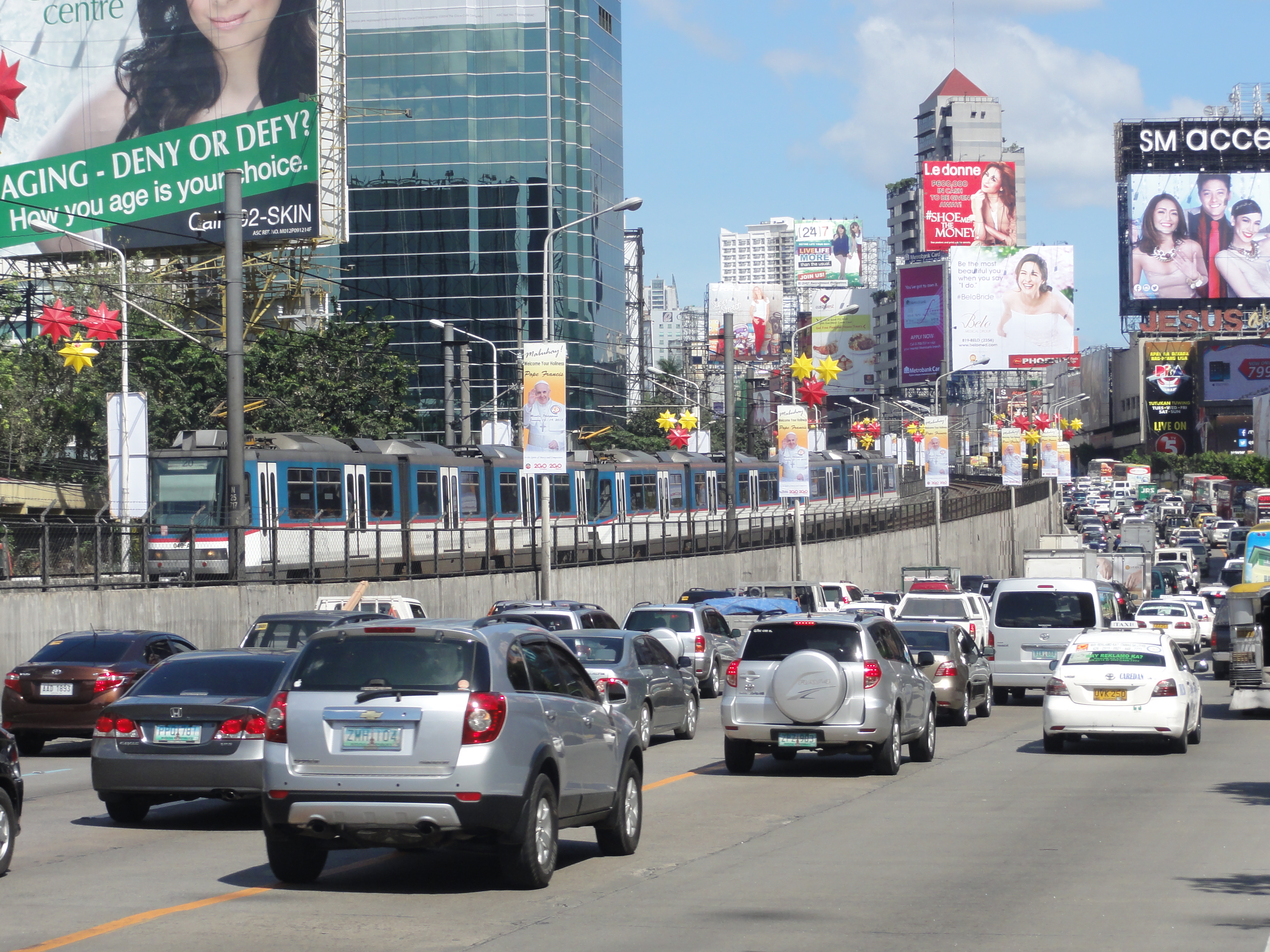 Part of Epifanio De Los Santos Avenue (EDSA) near Orense in Makati City. Includes a Line 3 train.